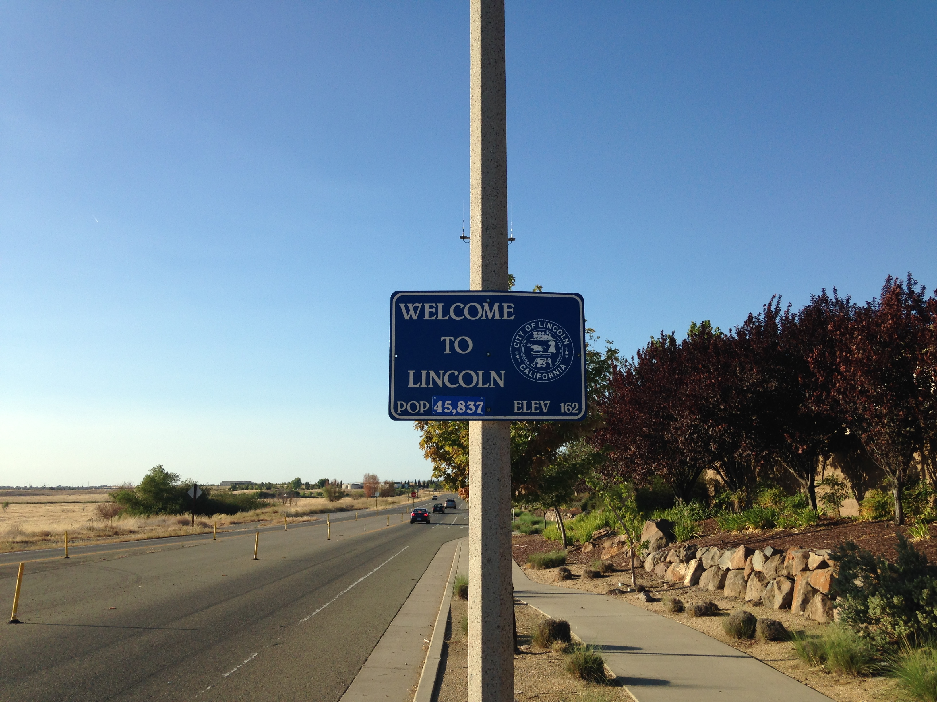 Picture of Lincoln Sign.